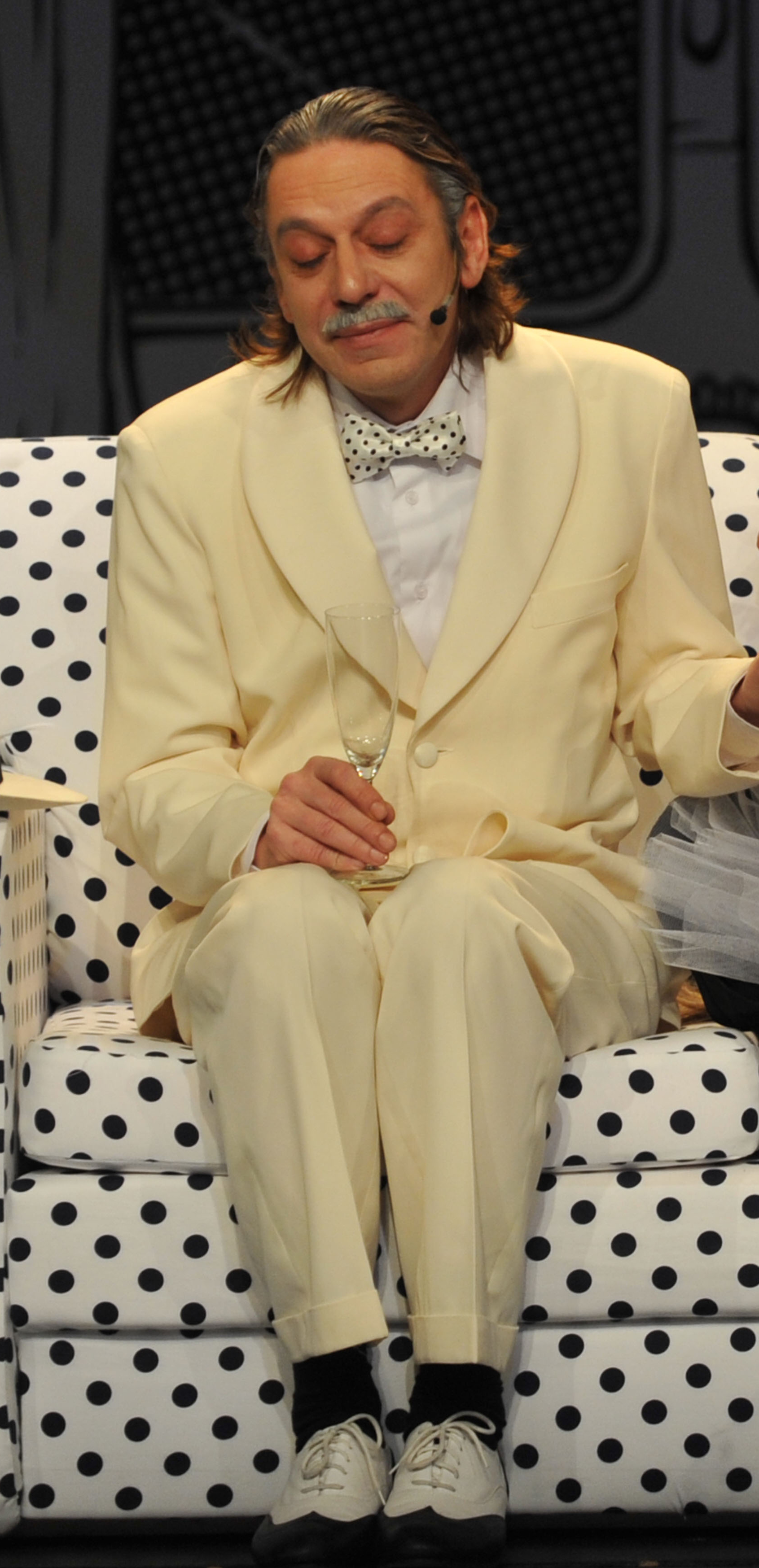 Jan Apolenář